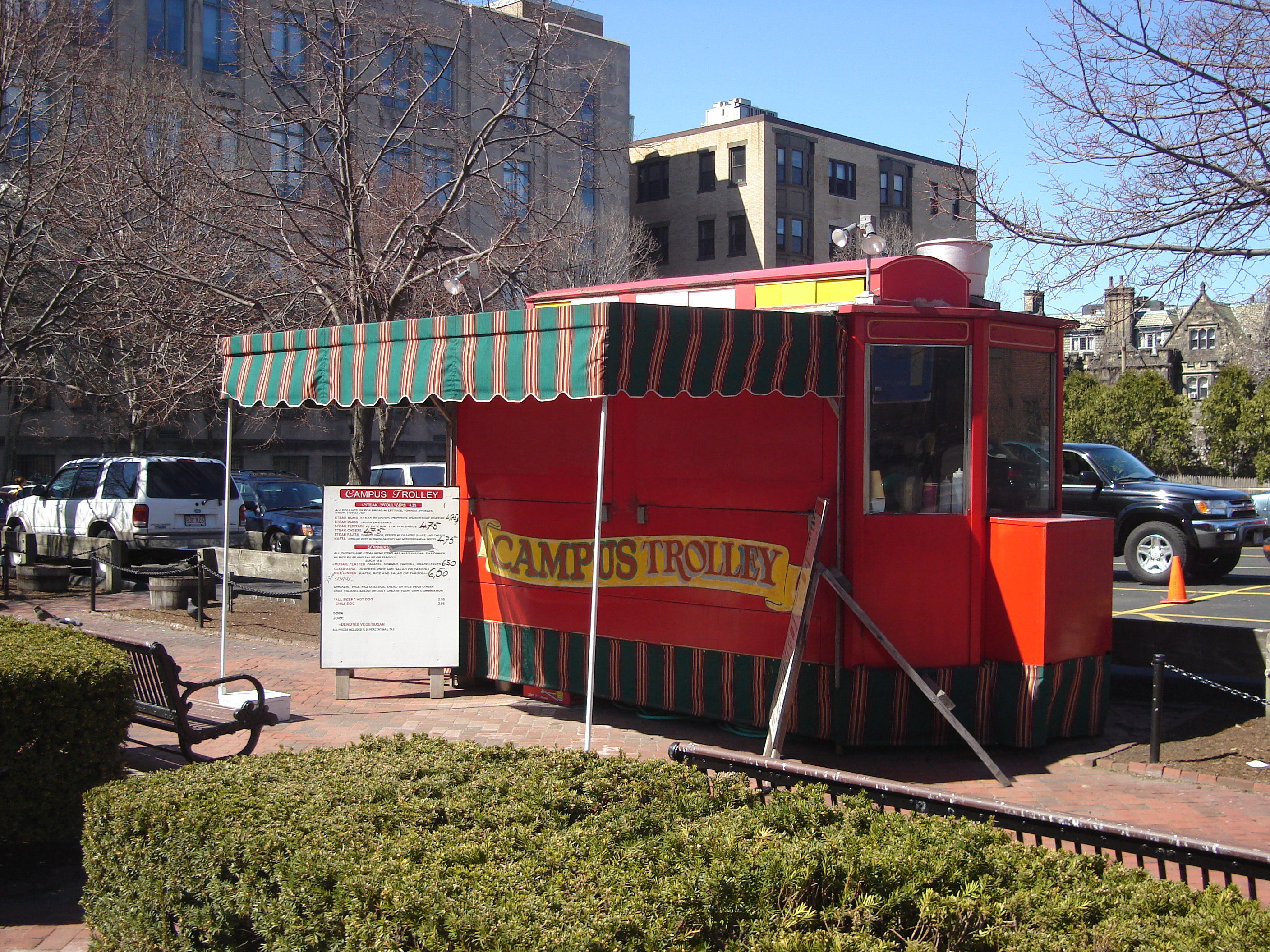 the Campus Trolley on the campus of Boston University, taken 4/2/06